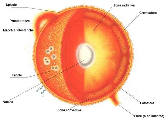 Structure of the Sun